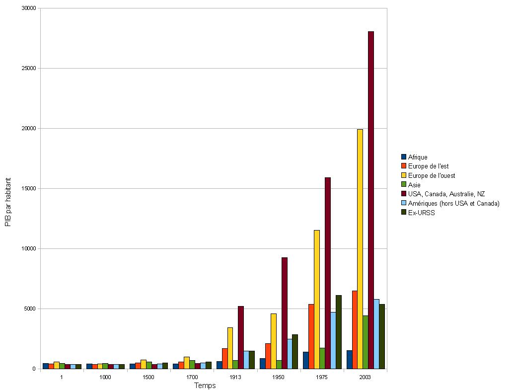 Bar chart showing the evolution of GDP per inhabitant from year 1 to year 2003 for large economic areas.